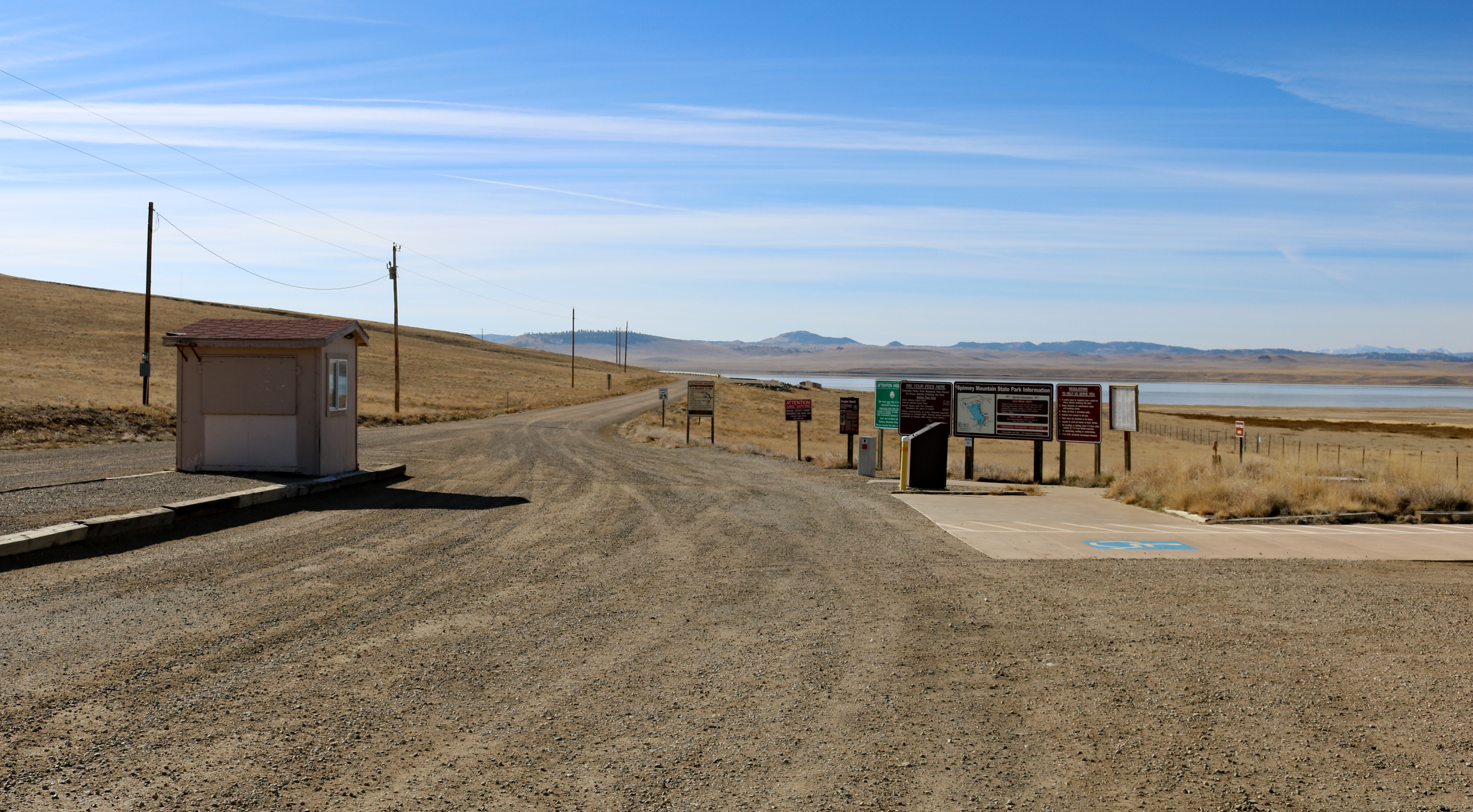 The area around one of the entrances to Spinney Mountain State Park in Park County, Colorado. Spinney Mountain Reservoir is visible in the background.